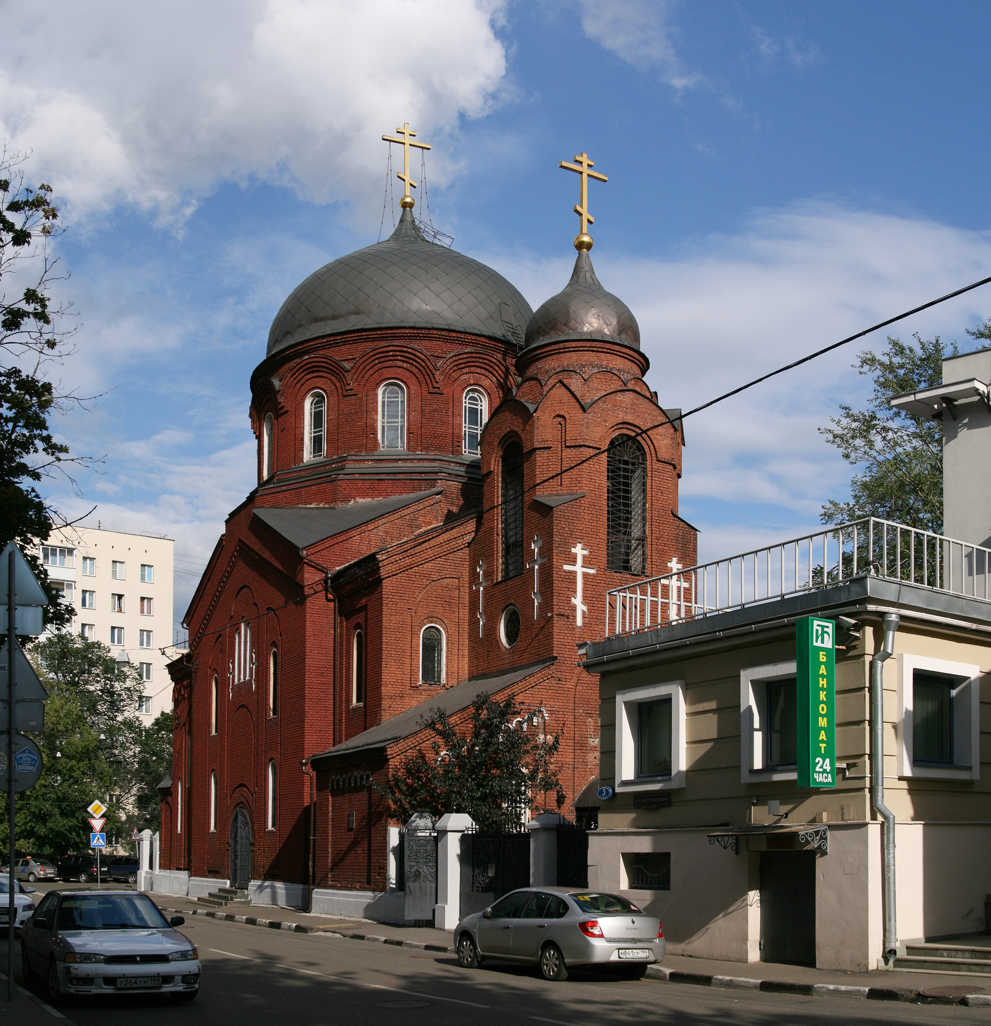 Church of the Protection of the Theotokos (Russian Old-Orthodox Church), Moscow, Russia, 1908-1910